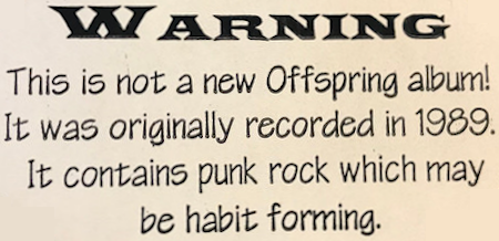 The warning label on The Offspring debut album, re-released in 1995.